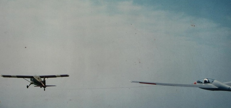 De Havilland Canada Beaver tows Grob Twin Asir in Germany